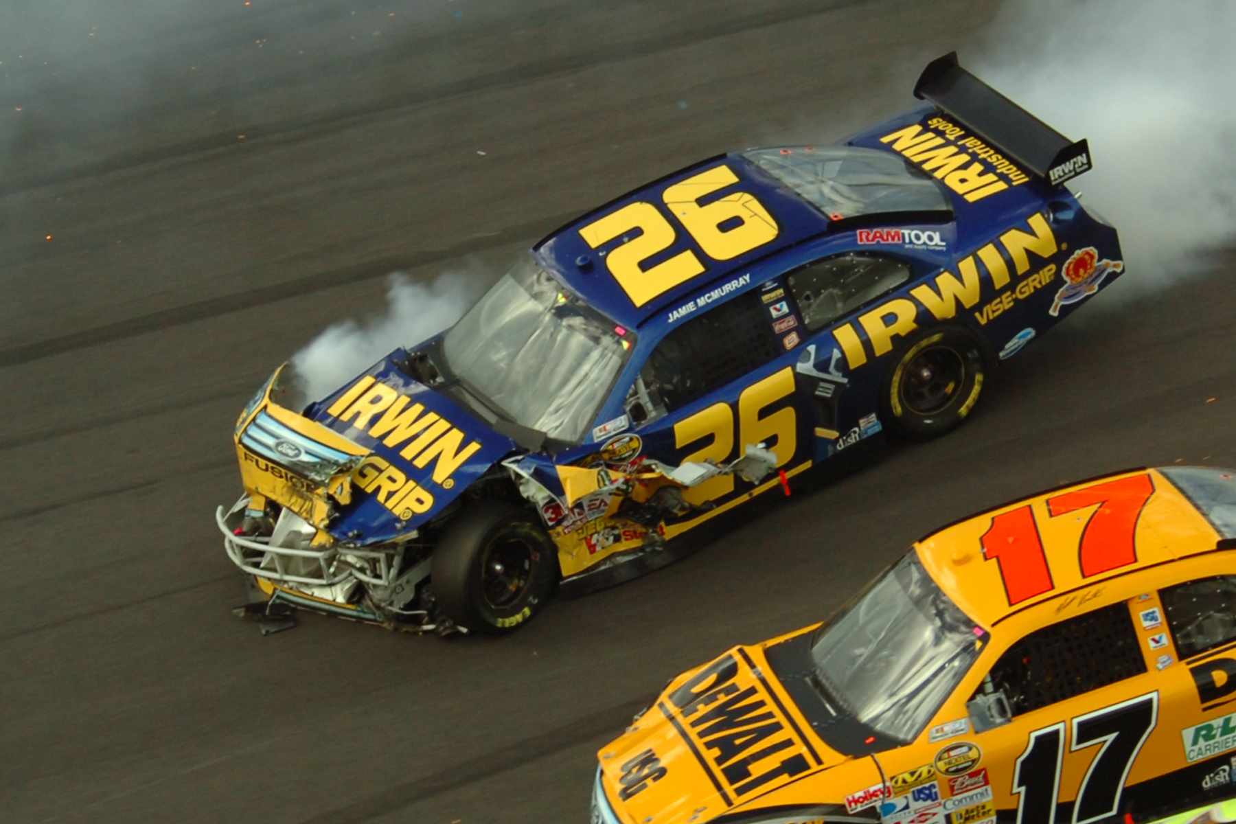 TALLADEGA, Ala. -- Jamie McMurray, No. 26 Ford Fusion, slides down the high banks after hitting the wall in a 11-car chain reaction crash on Turn 4 of Lap 144. Fire safety crews all around the track responded immediately to the crash. On pit road, John Piccuito, J.R. Suddarth and Tech. Sgt. Jimmy Reed, Eglin Air Force Base firefighters, are among a group of firefighters from all over the country that go to the spring and fall Talladega NASCAR races to make sure the drivers and race teams are safe. They provided safety for the Friday night Automobile Racing Club of America RE/MAX Series race, the NASCAR Craftsman Truck Series race on Saturday and the NASCAR Nextel Cup Series race on Sunday. (U.S. Air Force photo by Staff Sgt. Mike Meares)